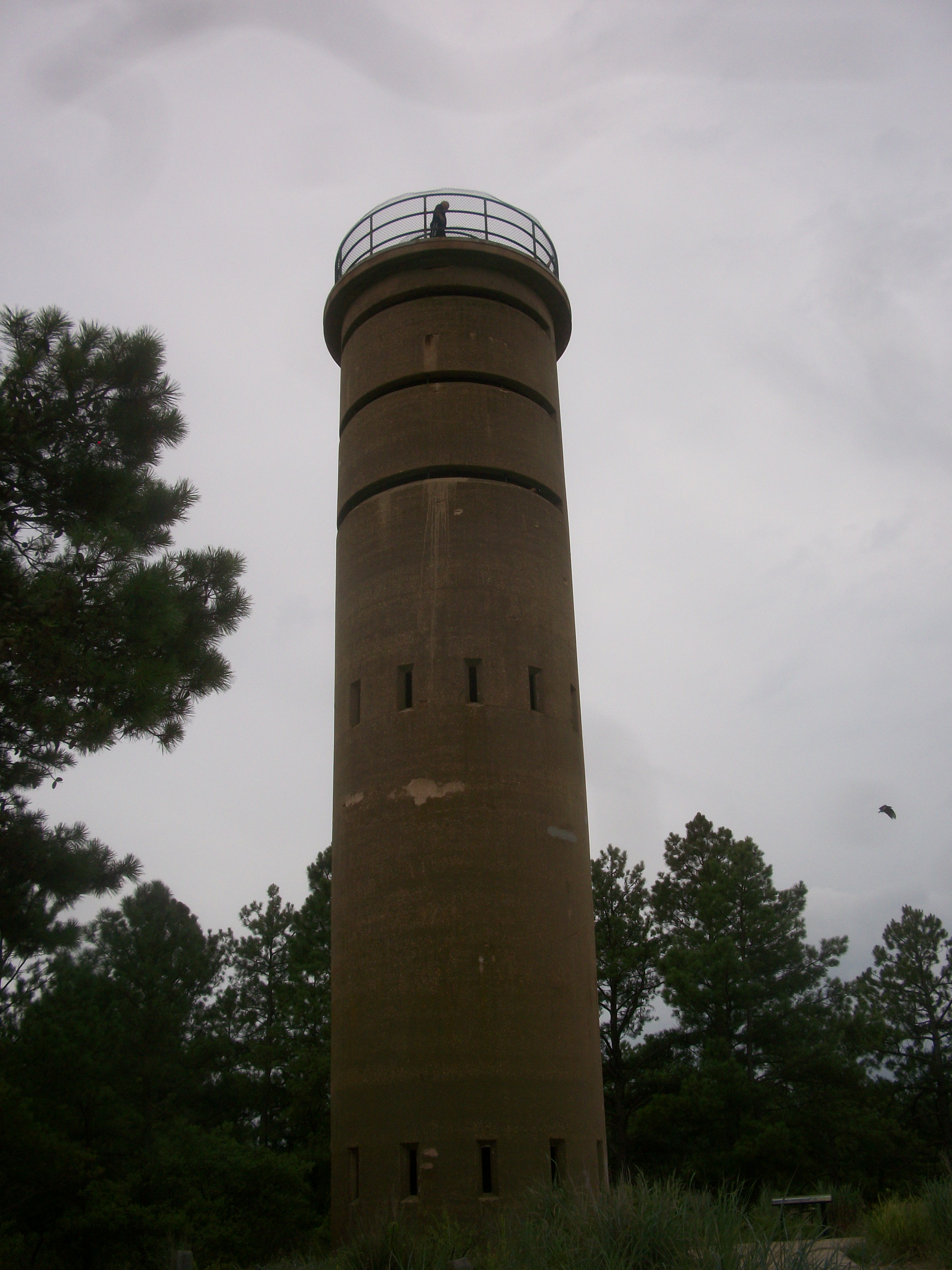 WWII observation tower at Cape Henlopen State Park.